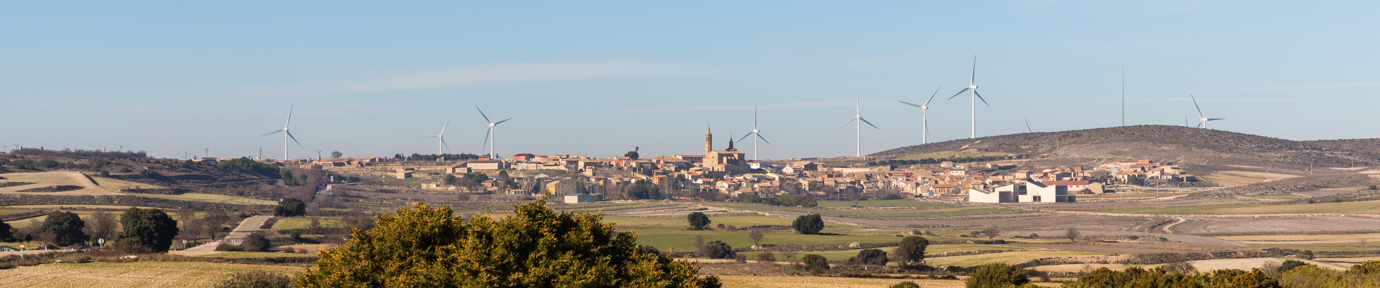 View of Fuendetodos, Zaragoza, Spain